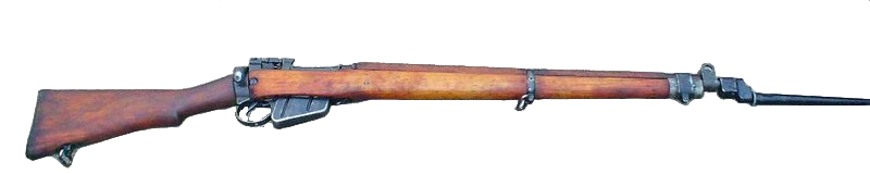 Lee-Enfield No.4 Mk.1 rifle from 1944 Taken by Victor on January 9, 2005, enhanced (lightened) by Ian Duster, cropped by Rama This work has been released into the public domain by its author, Victor. This applies worldwide.In some countries this may not be legally possible; if so:Victor grants anyone the right to use this work for any purpose, without any conditions, unless such conditions are required by law.